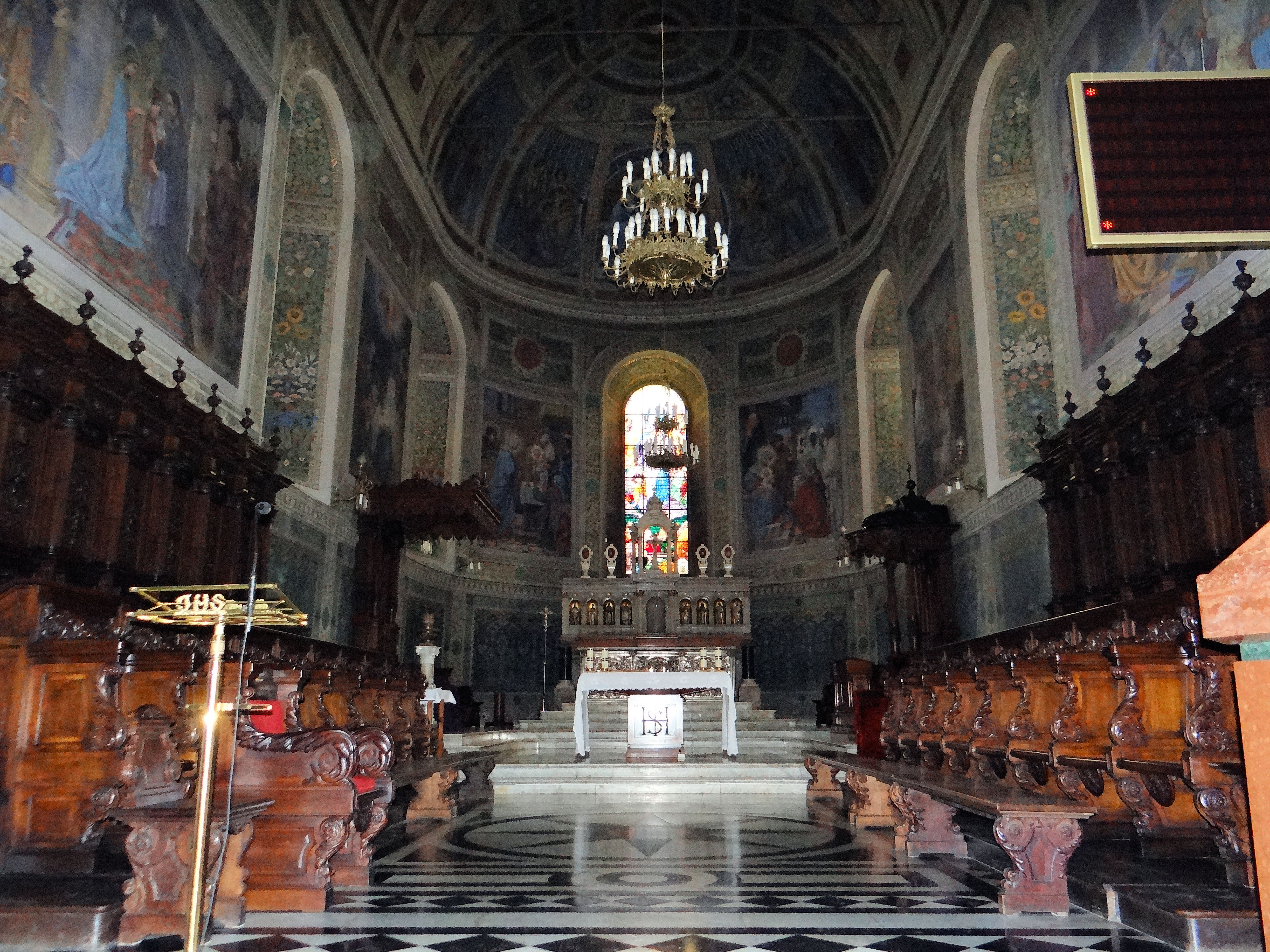 Altar of Płock Cathedral